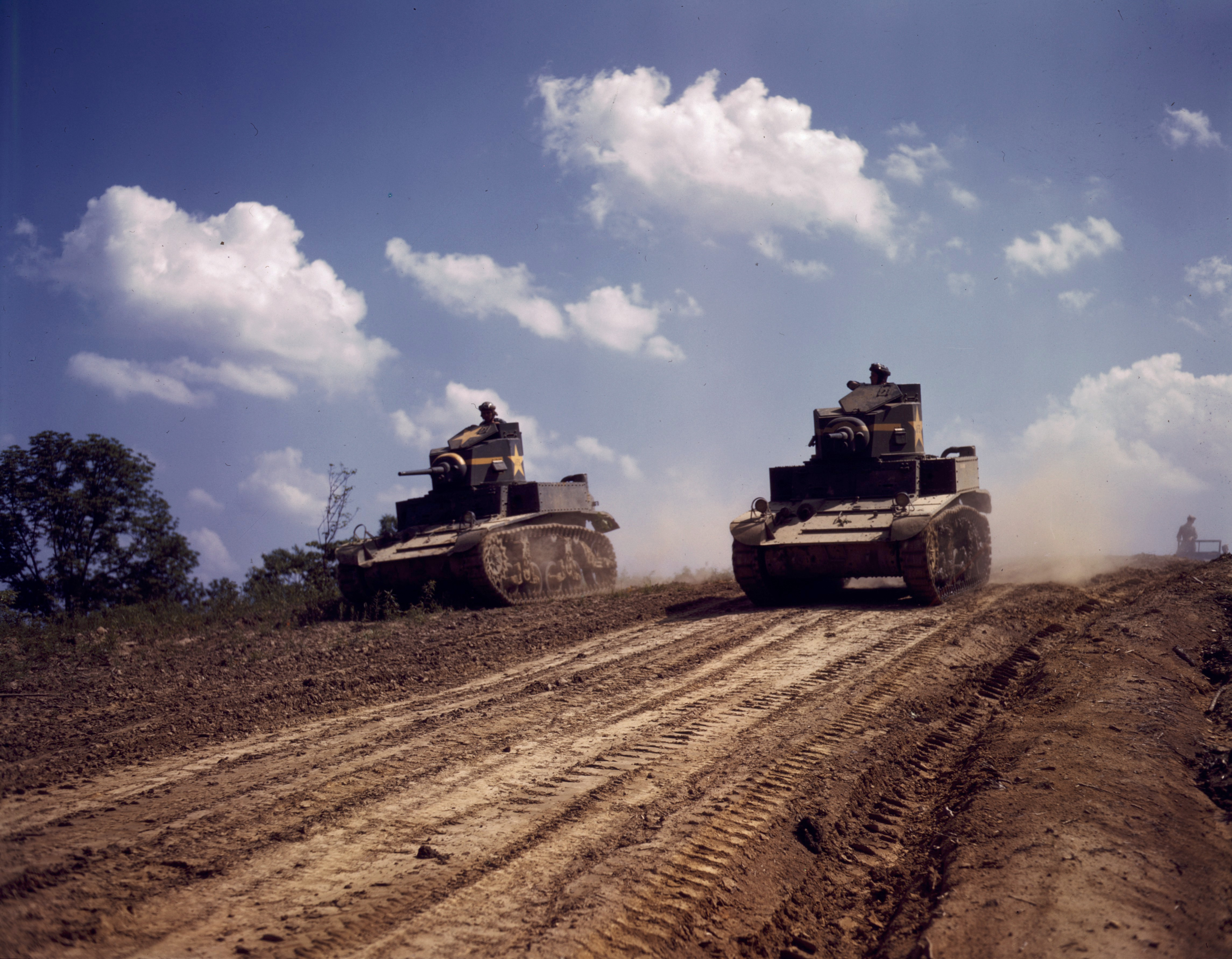 Stuart tank Light tanks, Fort Knox, Ky. June 1942 CALL NUMBER LC-USW36-173 REPRODUCTION NUMBER LC-DIG-fsac-1a35208 DLC (color digital copy file from original transparency) LC-USW361-173 DLC (color film copy slide)